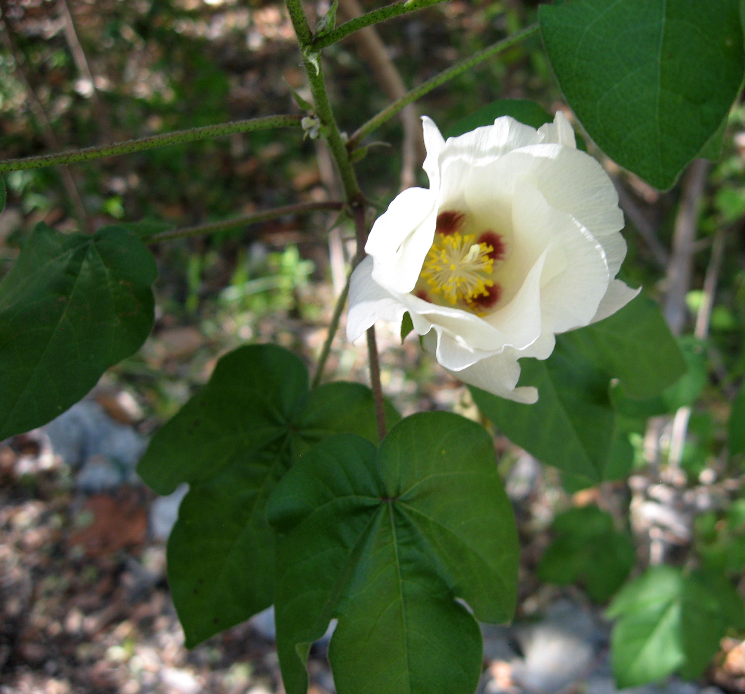 Gossypium hirsutum, growing at edge of hardwood hammock in sandy scrub, John Pennekamp Coral Reef State Park, Key Largo, Florida.